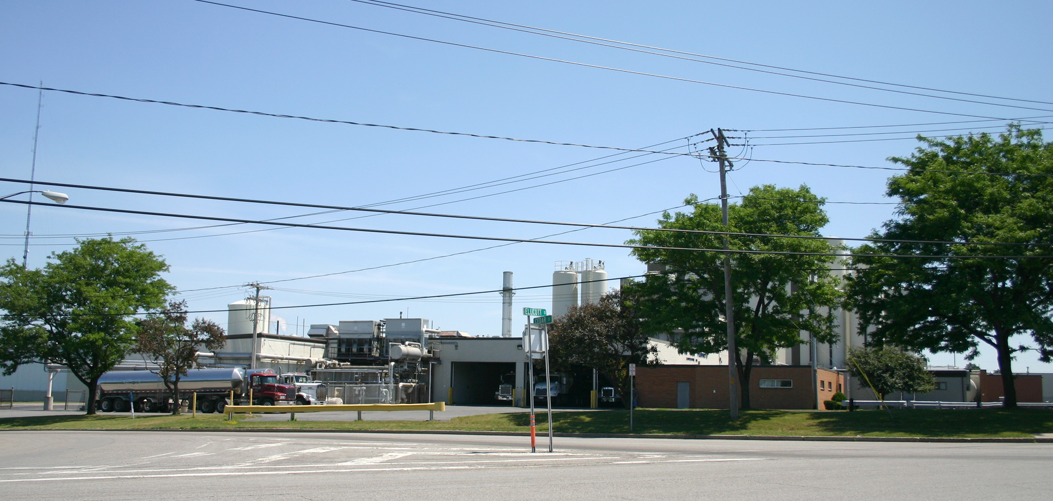 Image copyleft: Image taken by me, released under GFDL, Pollinator 05:01, 26 September 2005 (UTC)